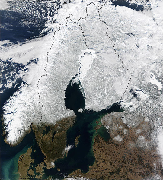 Scandinavia on March 15, 2002, by the Moderate-resolution Imaging Spectroradiometer (MODIS), flying aboard NASA's Terra satellite.